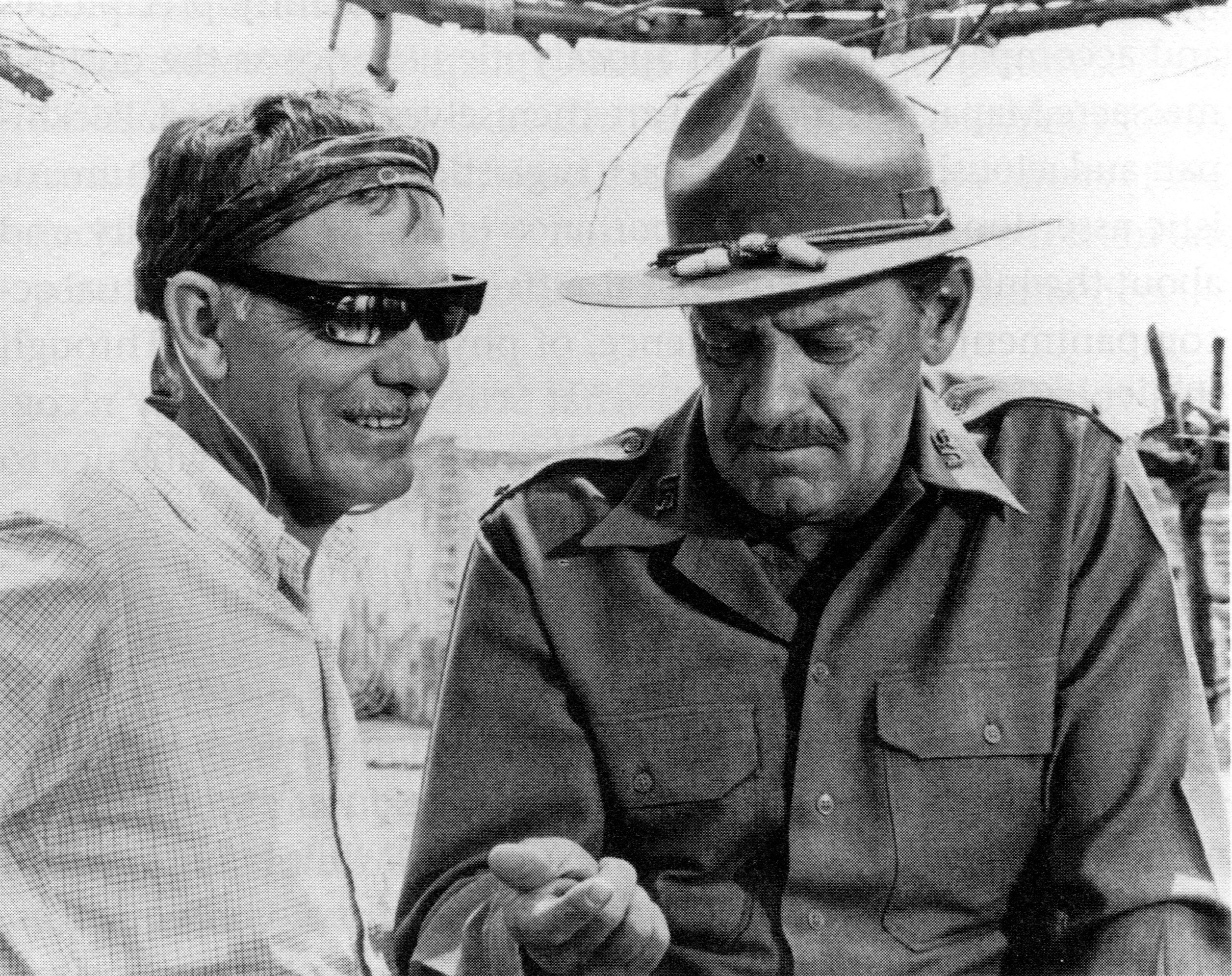 Production still for the film The Wild Bunch. The photograph was taken on-set by the studio, most likely for publicity purposes. Such images were then disseminated to the media and the public to promote the film (see Film still). It is definitely not a screenshot as an exact image like this never appears in the film. Since the image was published prior to 1977, under the terms of the 1909 Copyright Act (which was law until 1978), any copyright that may have been secured for the photograph would have had to be renewed 28 years after publication. The copyright for this image would therefore have had to be renewed in 1996. A search with The United States Copyright Office for "The Wild Bunch" finds no trace that this occurred.